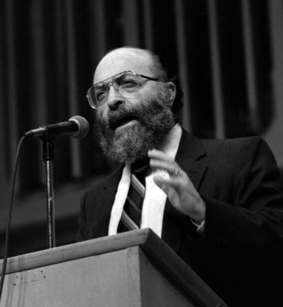 Chaim Potok - Tallahassee, Florida.